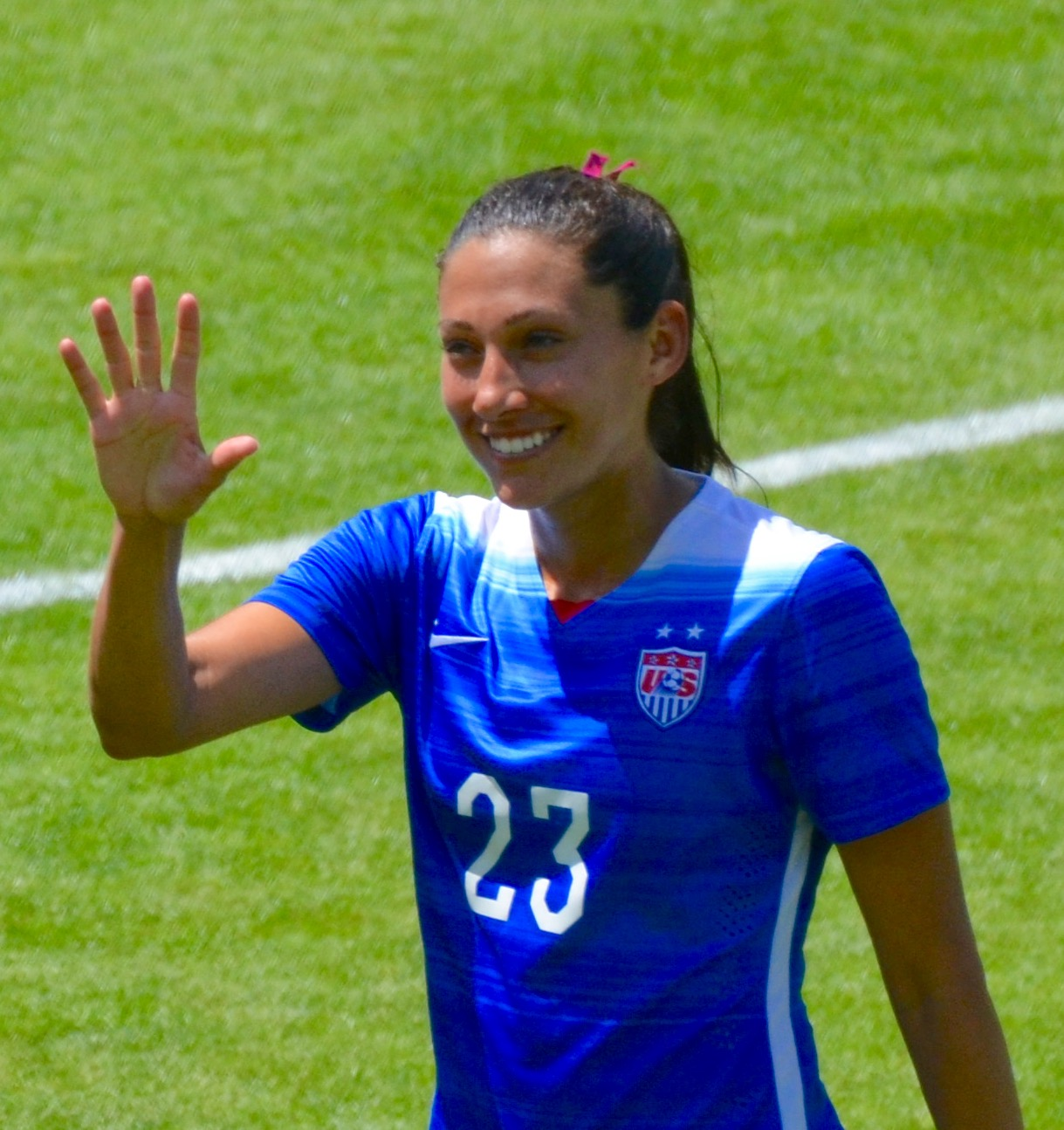 Christen Press playing for the US Women's National Team in San Jose, California on 10 May 2015, greeting fans after a game vs the Republic of Island.